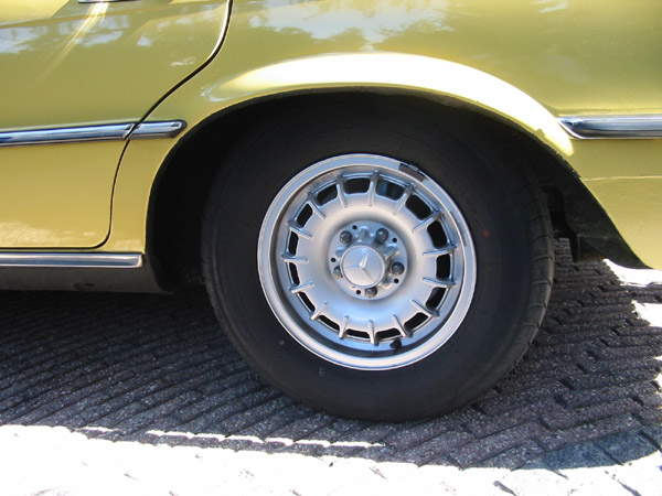 Mercedes-Benz W116 350SE 1975 Barok Alloy Wheels